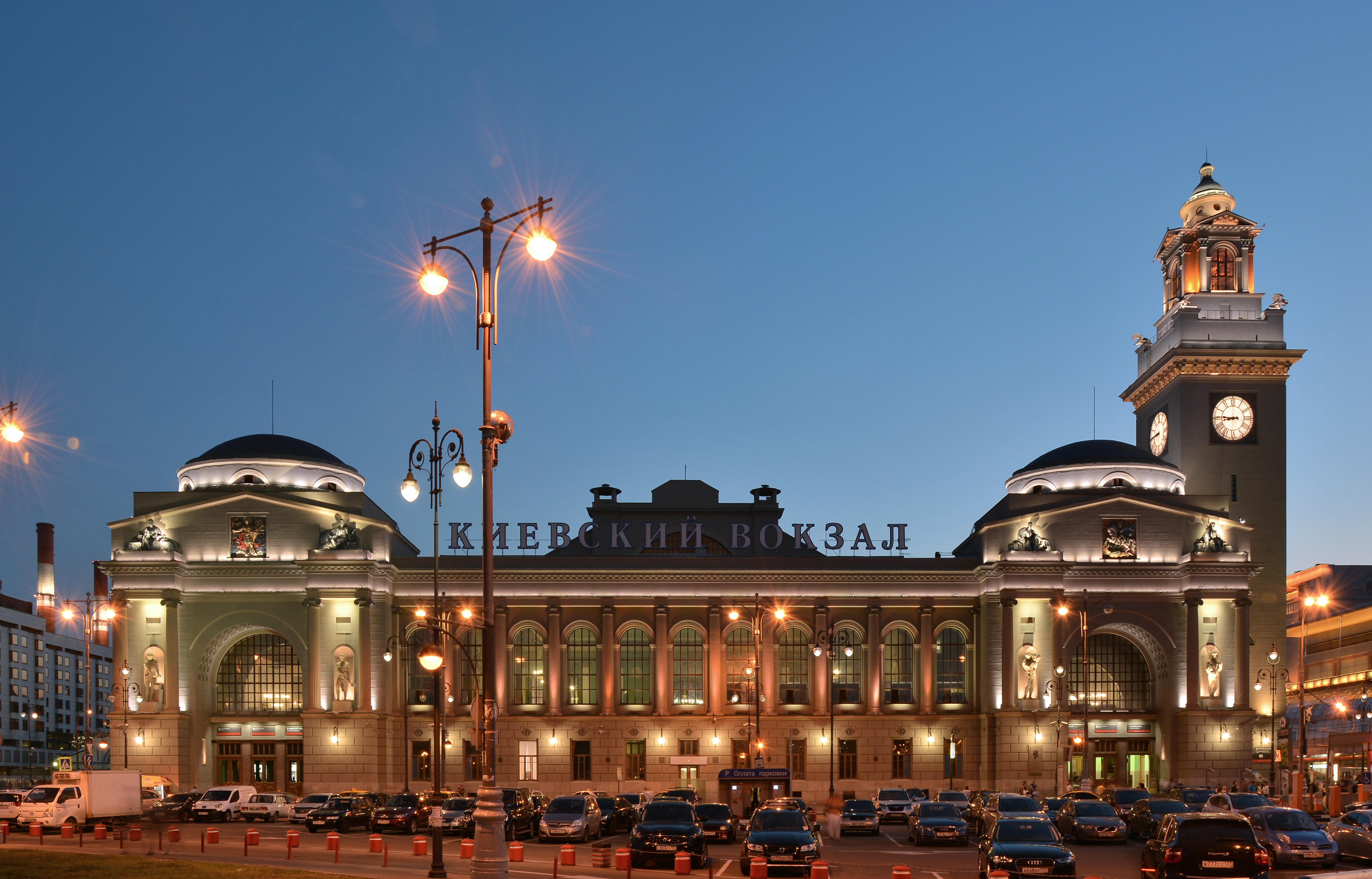 Moscow. Kievsky railway station in night light. View of the main facade from the Europe Square.